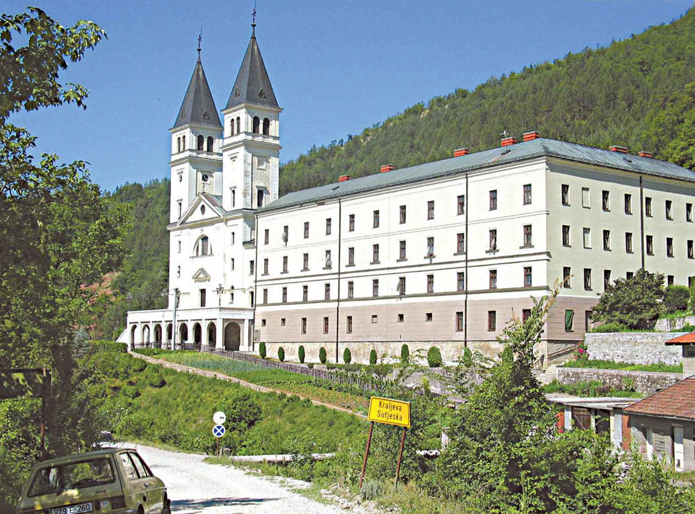 Franciscan monastery in Bosnia and Herzegovina